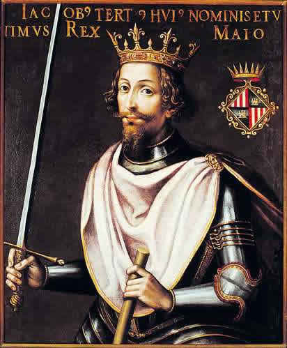 James III of Majorca